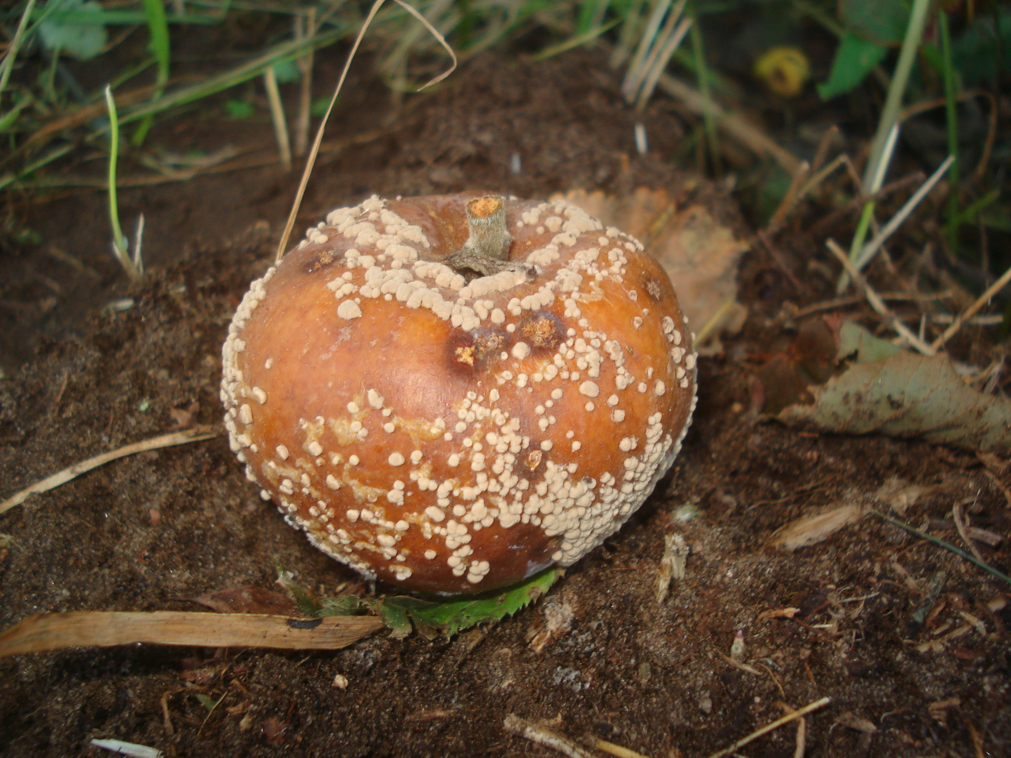 Monilinia fructigena